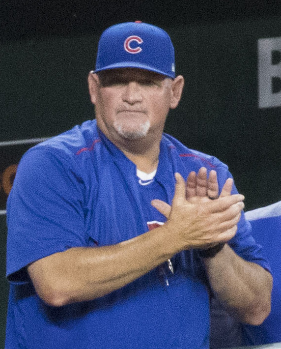 The Chicago Cubs dugout during a 2017 game at Camden Yards in Baltimore